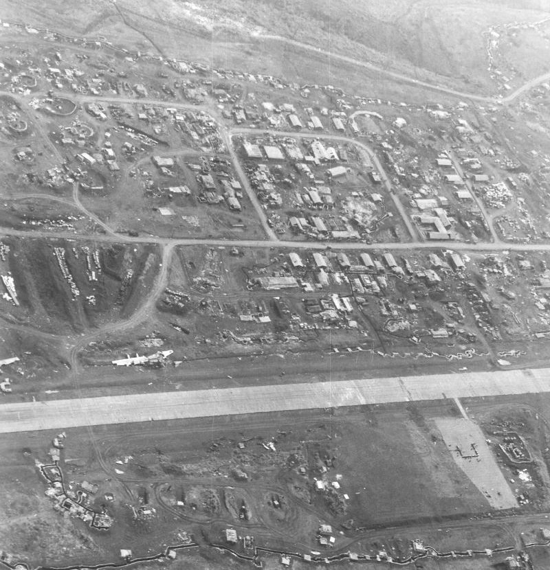 Khe Sanh Airport during the 1968 siege